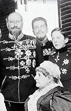 Tsar Ferdinand of Bulgaria with his son, Prince Kiril of Bulgaria, and his sister, Archduchess Clotilde of Austria.